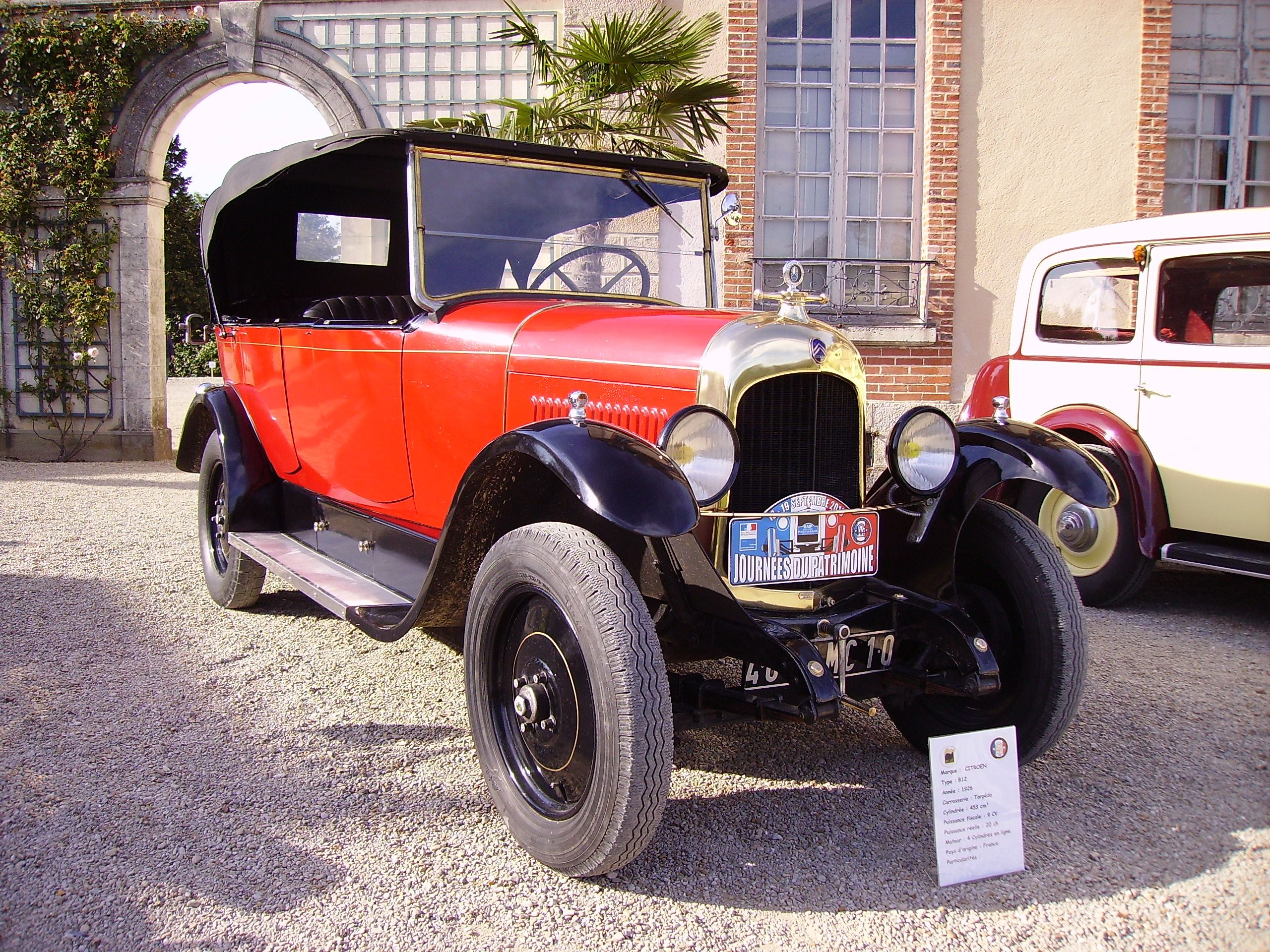 Citroën B12 year 1926.